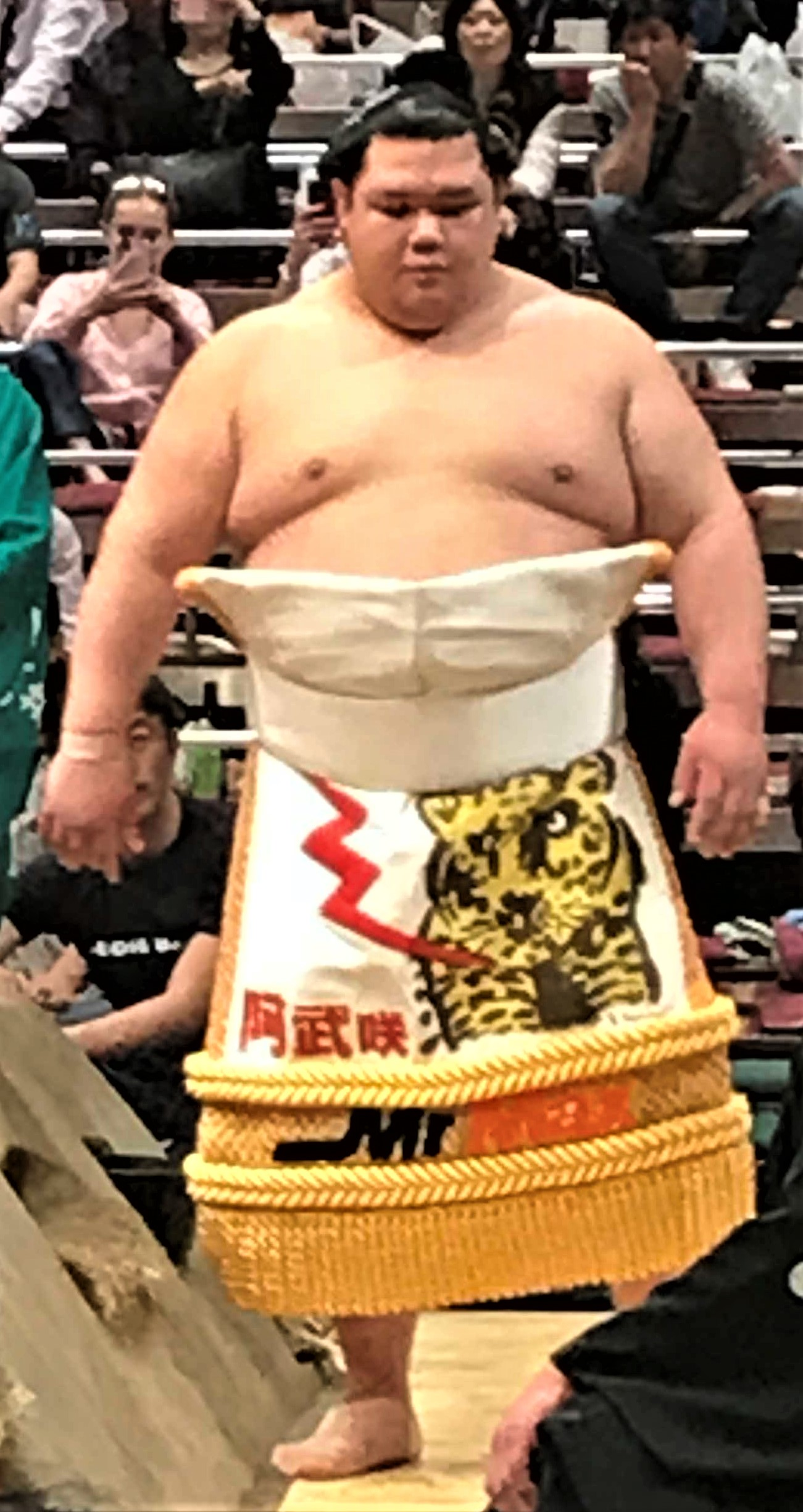 taken at 2018 May tournament